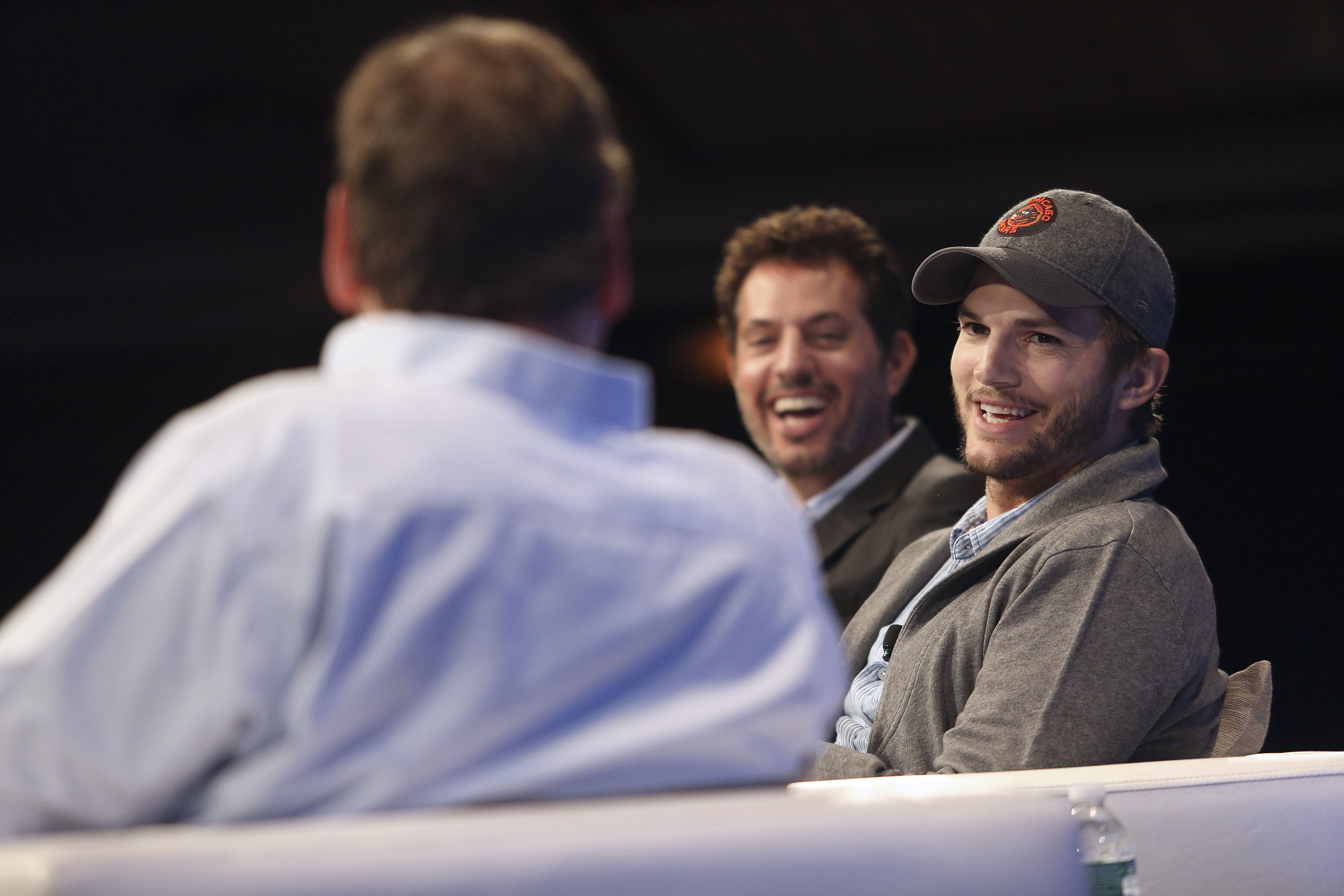 Photo by Max Morse